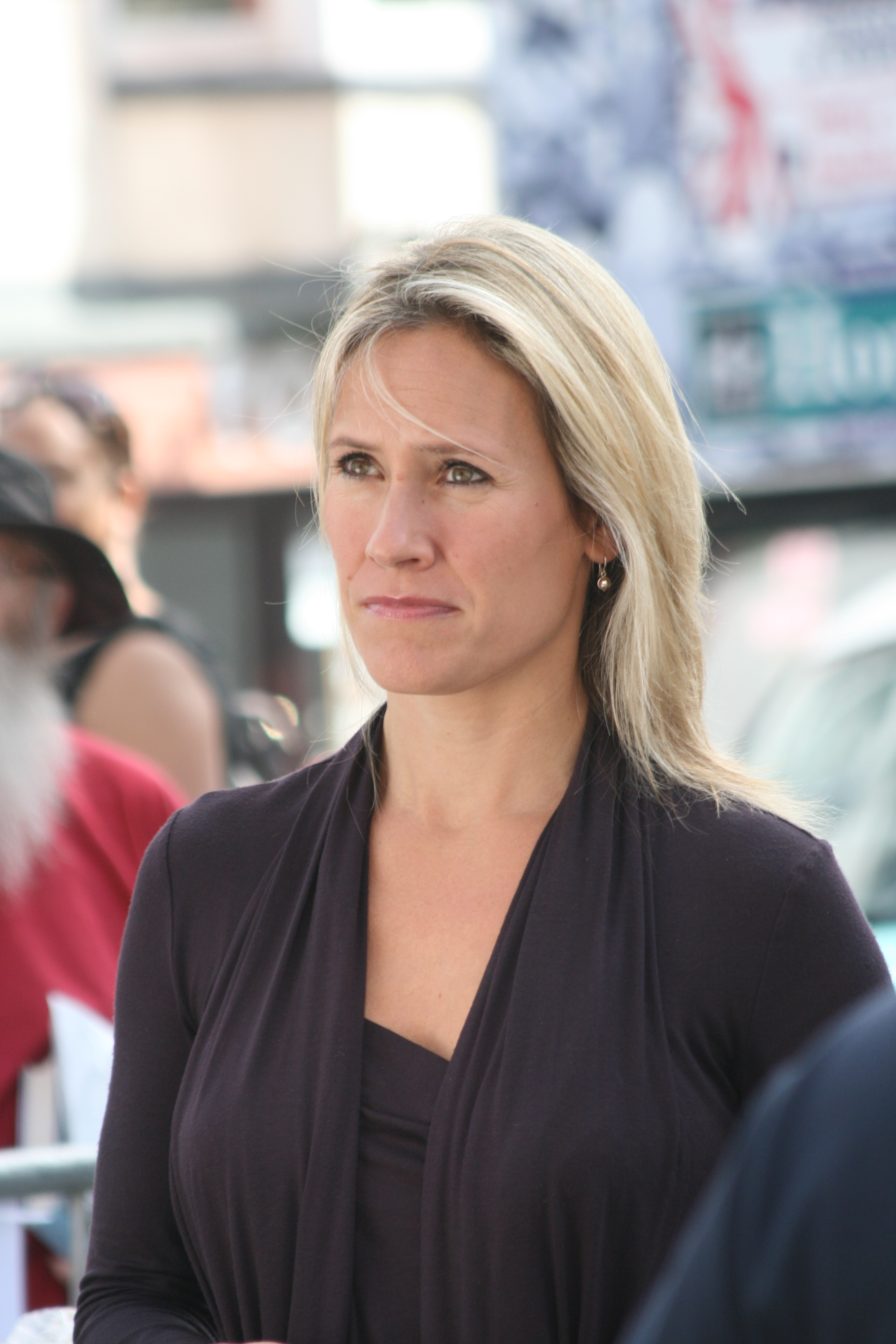 Celebrity and TV news presenter Sophie Raworth filming a current affairs segment in Brighton, UK